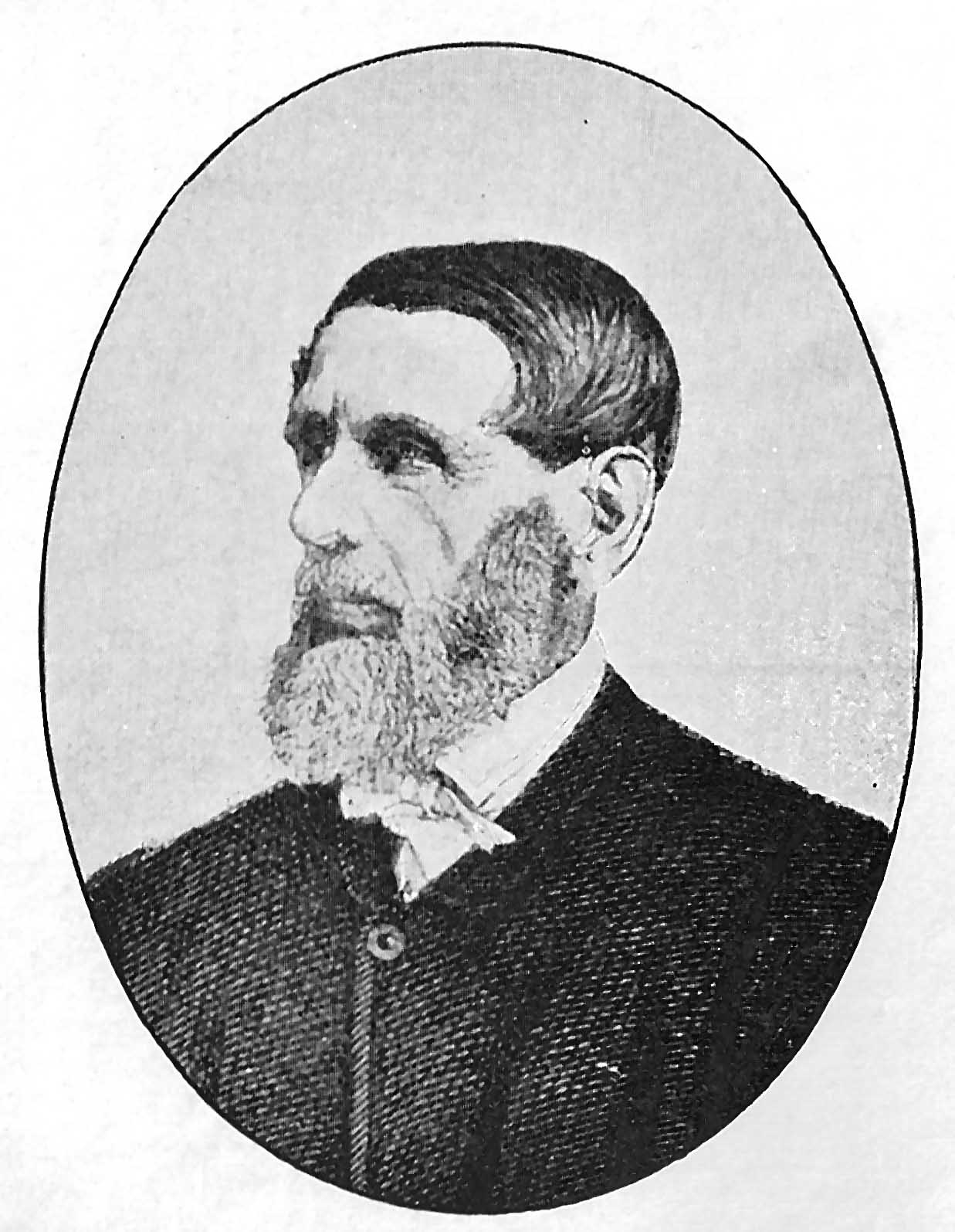 Portrait of Jacobus Nicolaas Boshof, second State President of the Orange Free State, in office 1857-1859. Lithography from photograph.